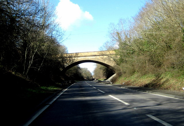 A3088 to the Cartgate roundabout - Yeovil This section of the A3088 leading to the A303 has been built along the old railway line from Yeovil to Langport. The road was completed in the late 1980's.